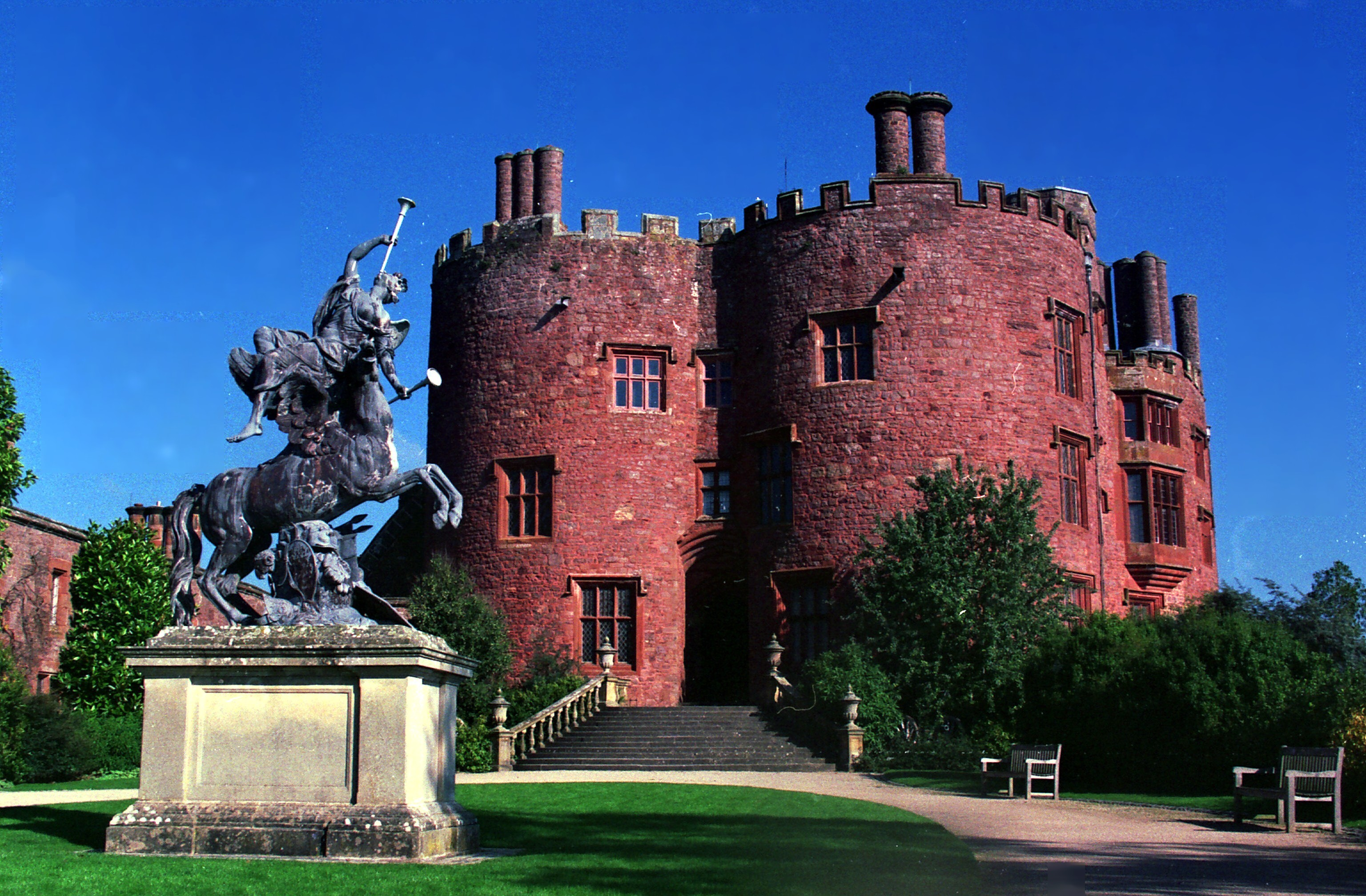 Courtyard of Powis Castle